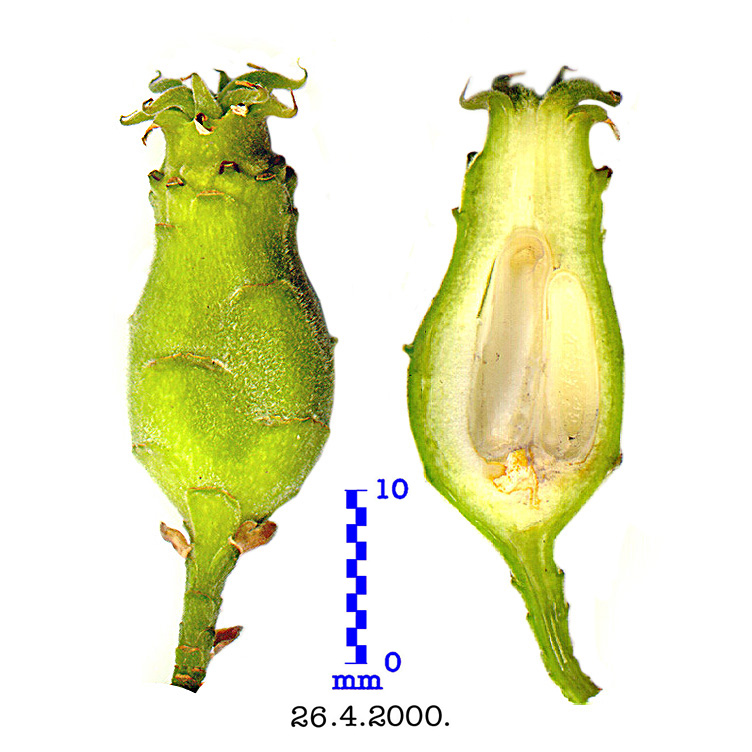 Unripe hypanthium of Chimonanthus praecox